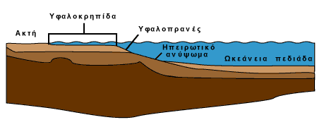 Continental shelf diagram with Greek legend.